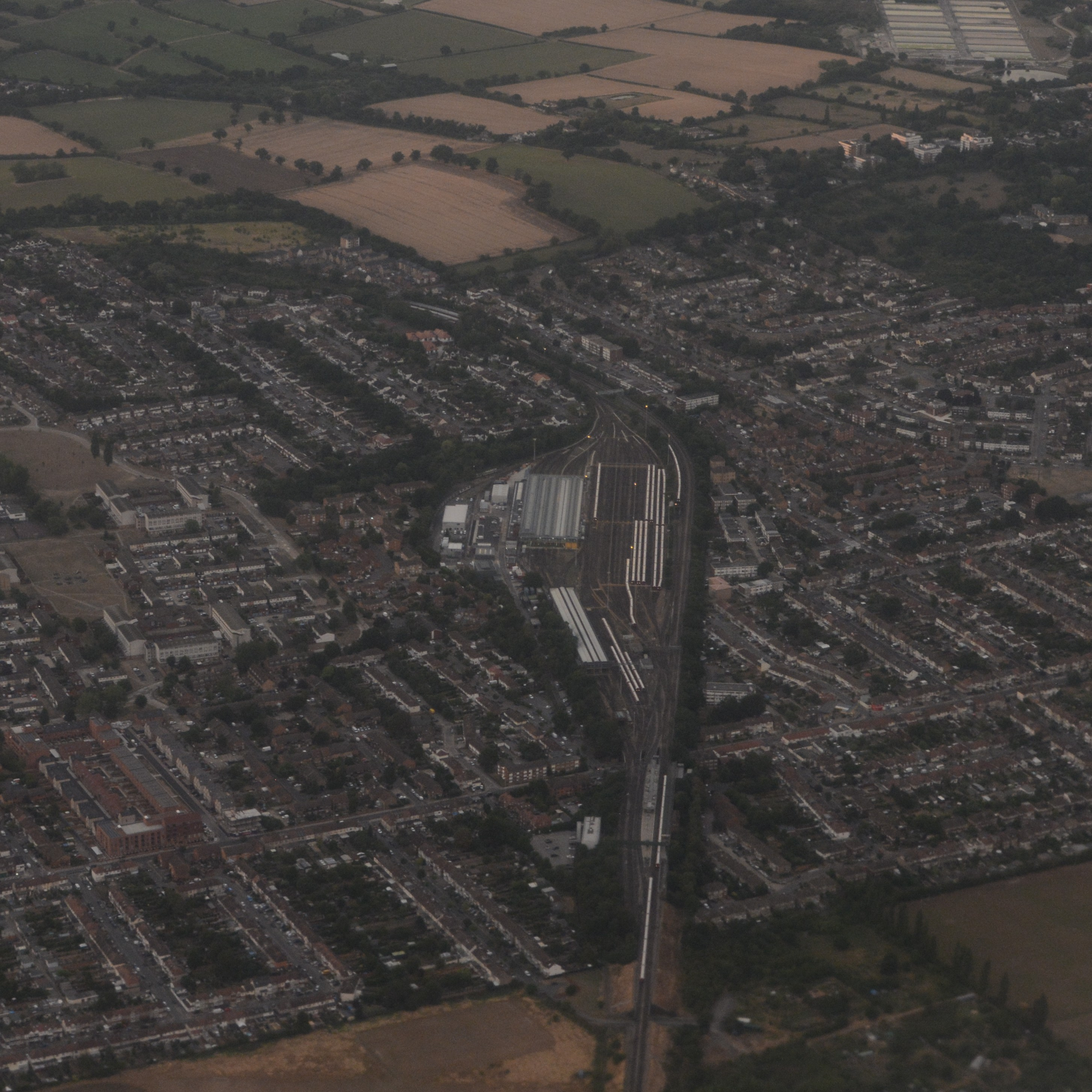 Hainault tube depot and station (just below the main depot) from the air over London, 3 August 2018